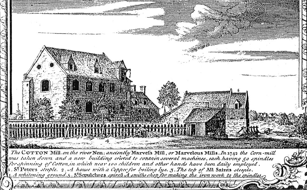 Image of Marvel's Mill, Northampton, from Noble and Butlin's "A Plan of the Town of Northampton" of 1746